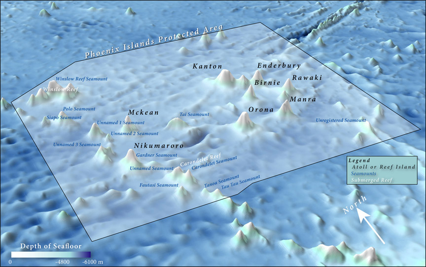 Bathymetric perspectivic map detailing the seamounts and submerged reefs located within the Phoenix Islands Protected Area